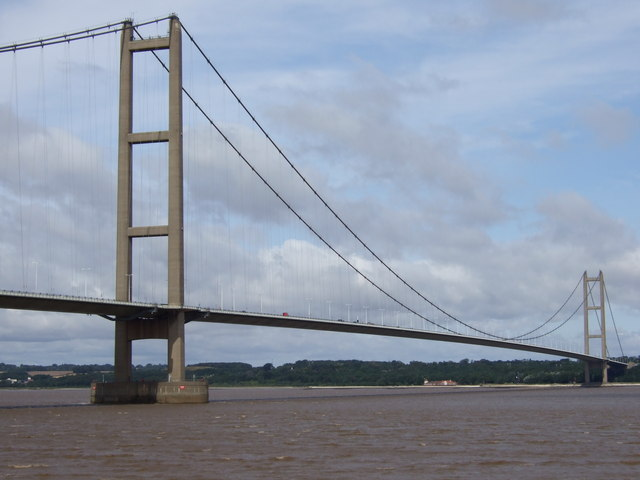 Humber Bridge, taken from the south bank, Lincolnshire, England.